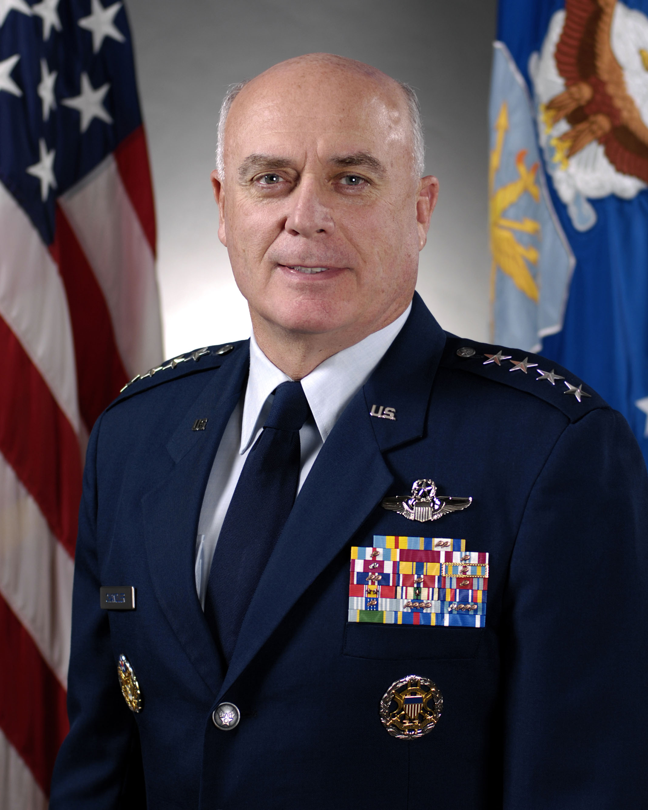 General Carrol H. Chandler, USAF Commander, Pacific Air Forces.